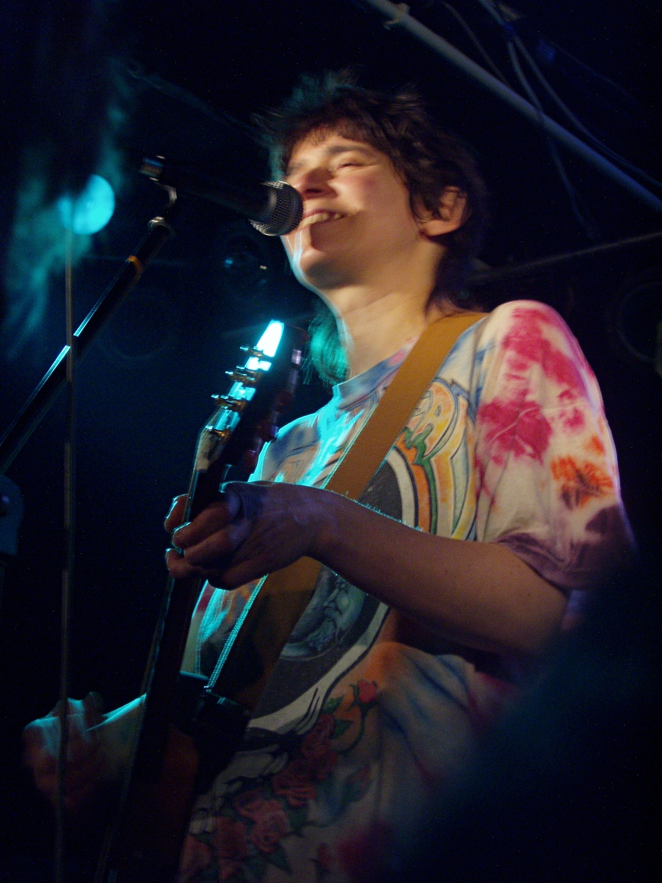 Umka & Bronevik concert at the Orlandina club, St. Petersburg, Russia. April 2007